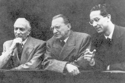 Antonio Segni, Alcide De Gasperi, Emilio Colombo